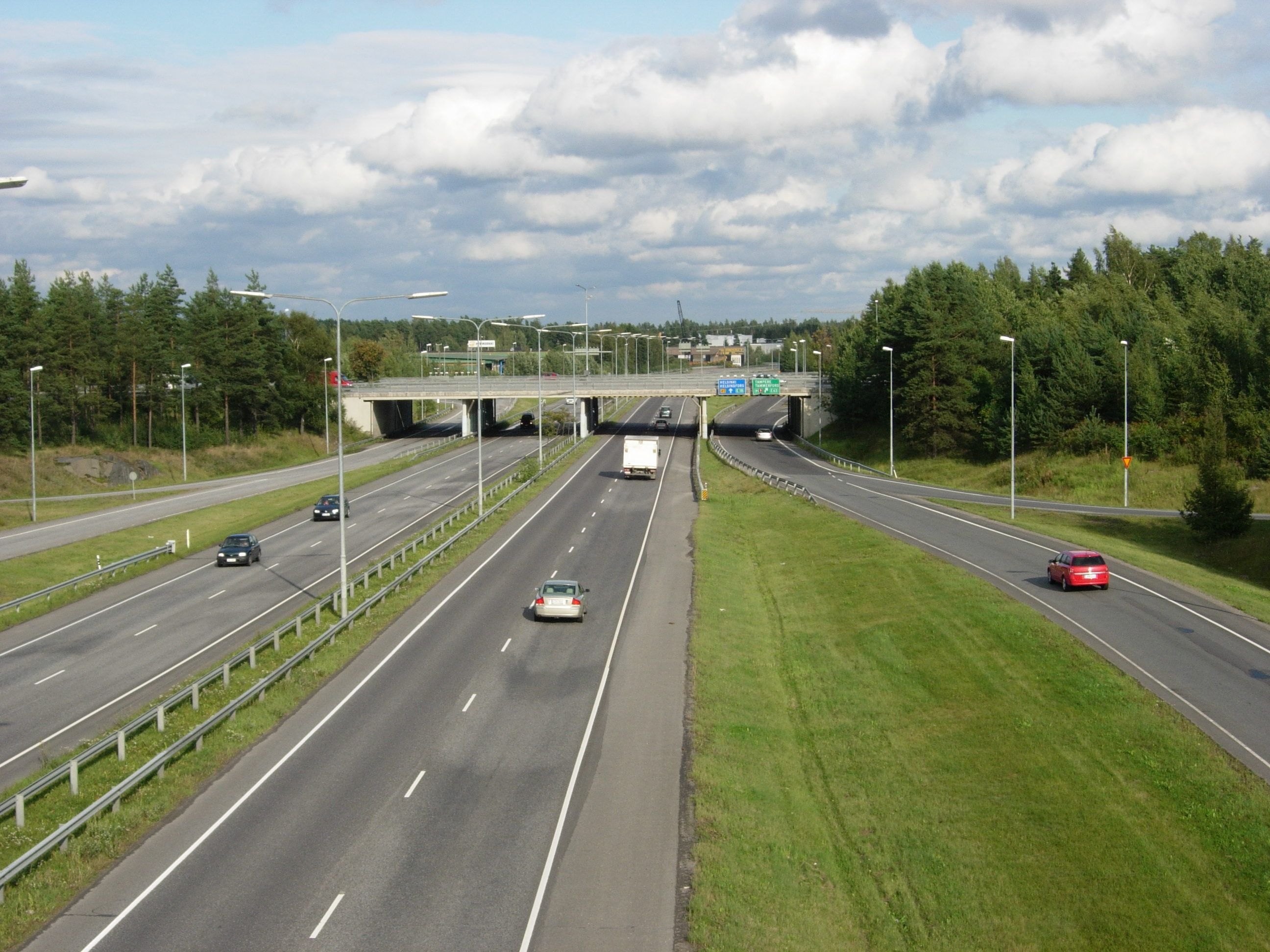 Highway 40 (E18) in Kärsämäki, Turku, Finland